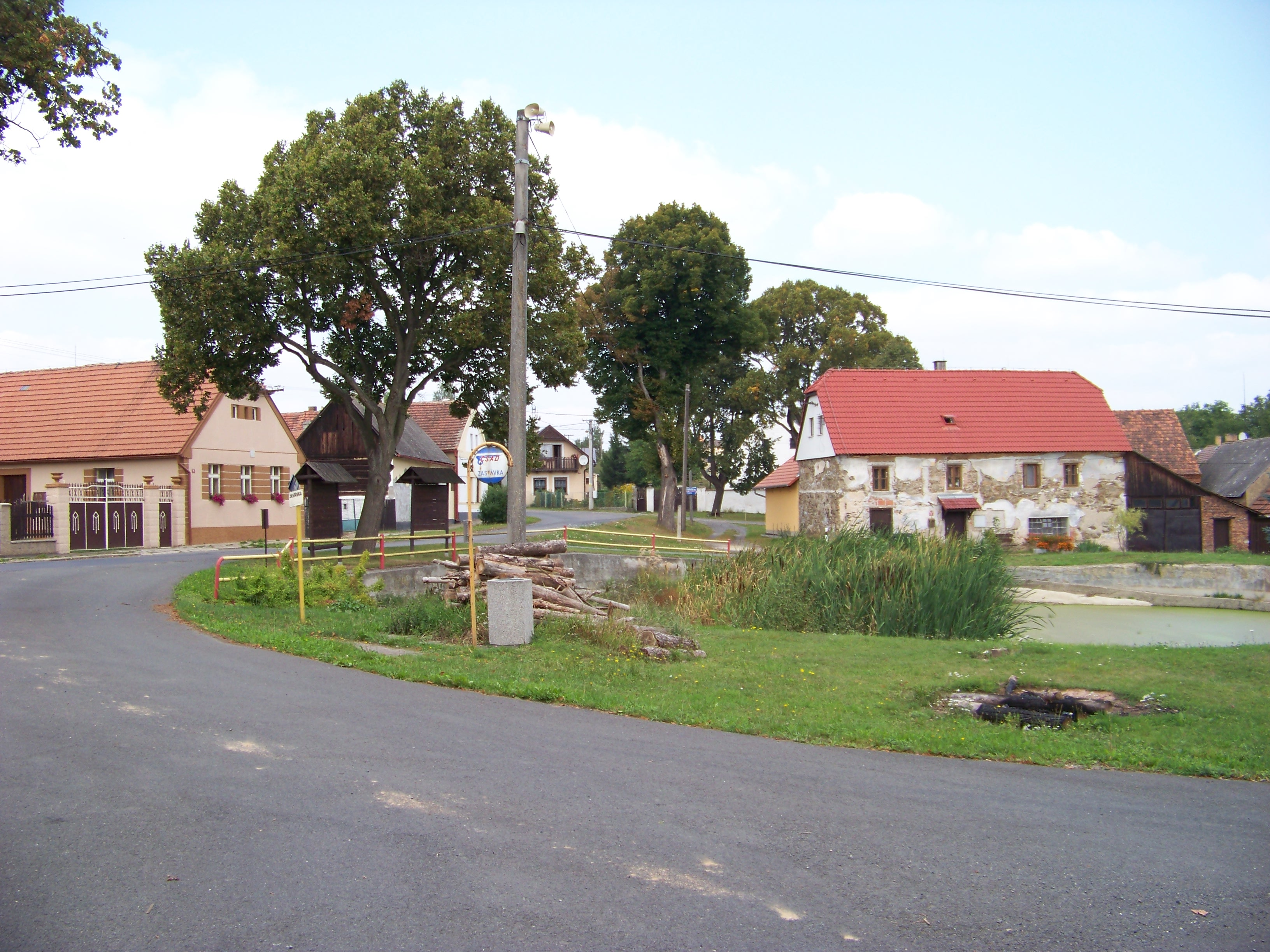 Šípy-Milíčov, Rakovník District, Central Bohemian Region, the Czech Republic.